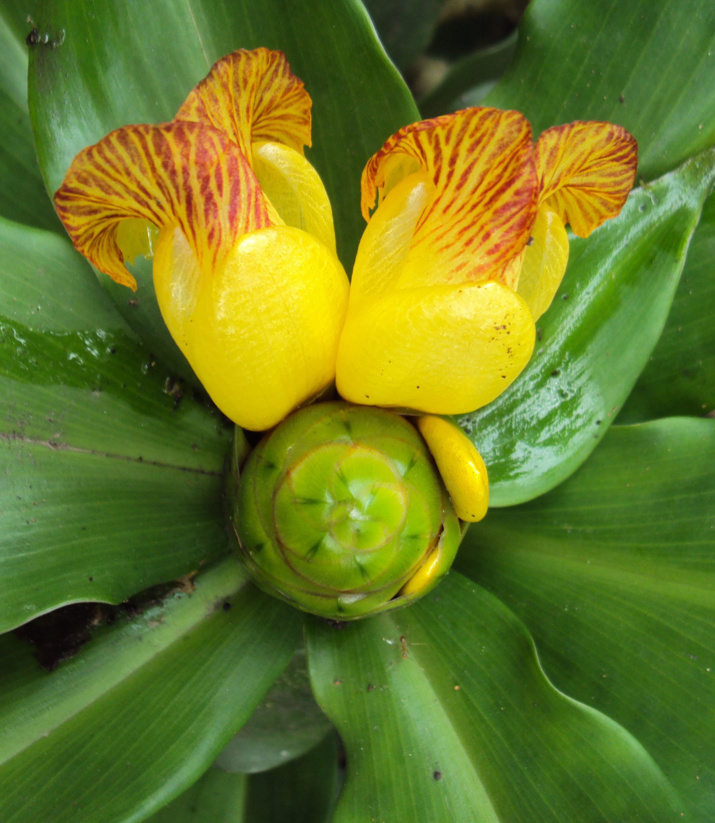 Costus pictus